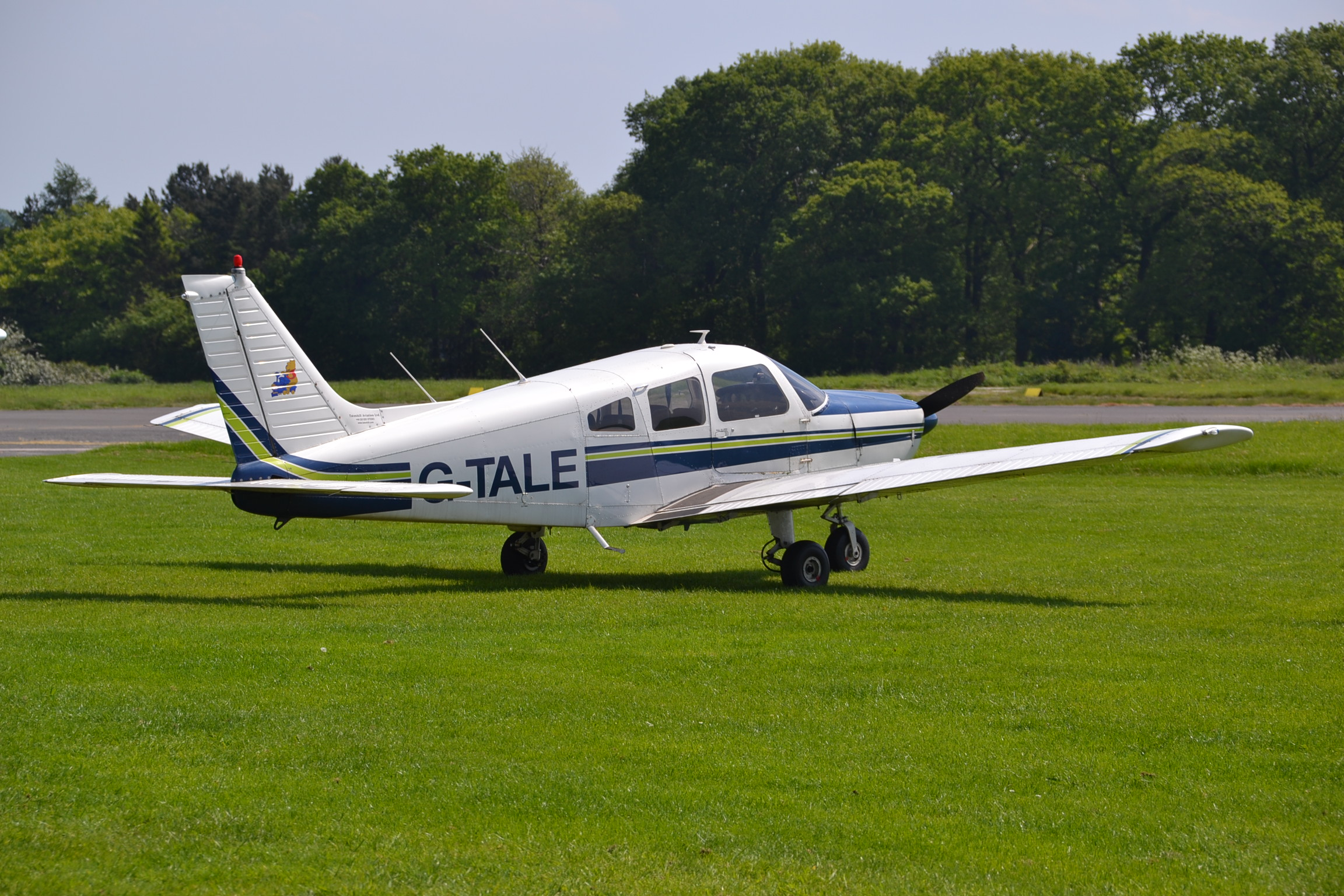 Piper PA28 of the Tatenhill Flying Club at Tatenhill, Staffs.,18/05/14.